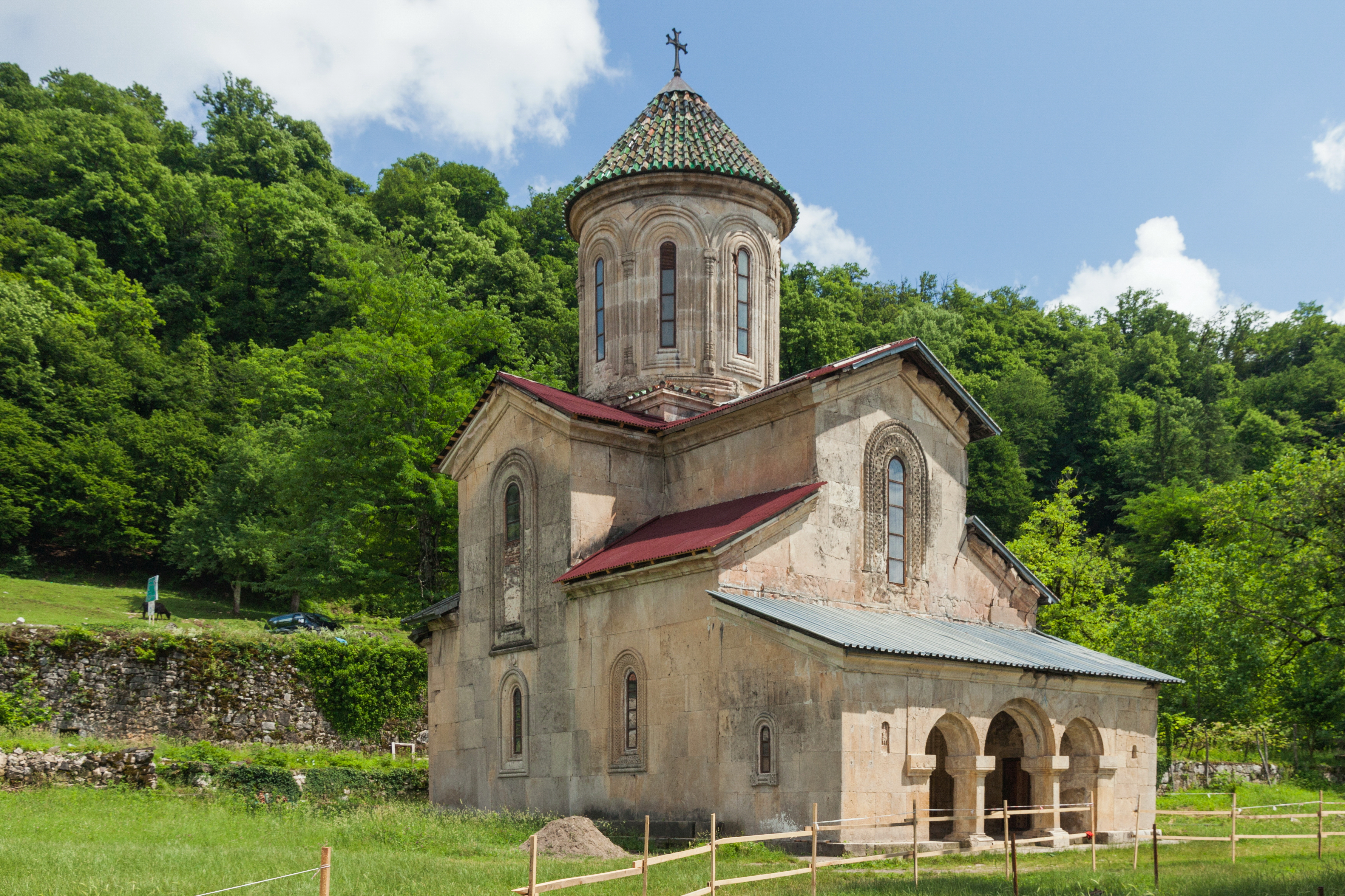 Gelati Monastery - St. George church. Gelati, Tkibuli Municipality, Imereti, Georgia.